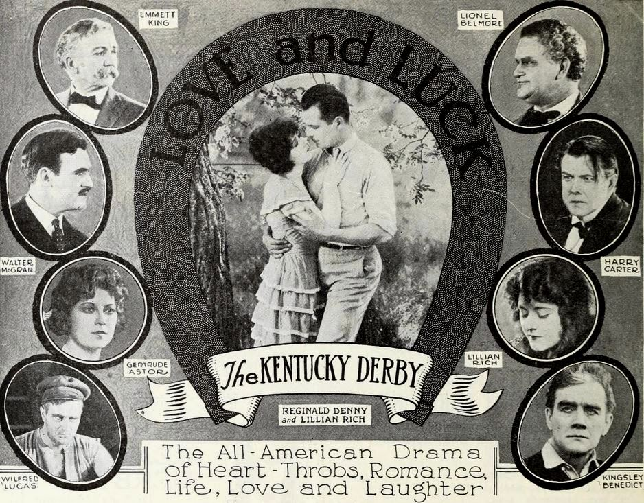 Advertisement for the American film The Kentucky Derby (1922) with Reginald Denny, Lillian Rich, Emmett King, Walter McGrail, Gertrude Astor, Wilfred Lucas, Lionel Belmore, Harry Carter, and Kingsley Benedict, on page 19 of the November 11, 1922 Universal Weekly.